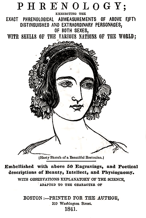 Coomb's Popular Phrenoloy by Frederick Coombs (1803-1874) aka George Washington II